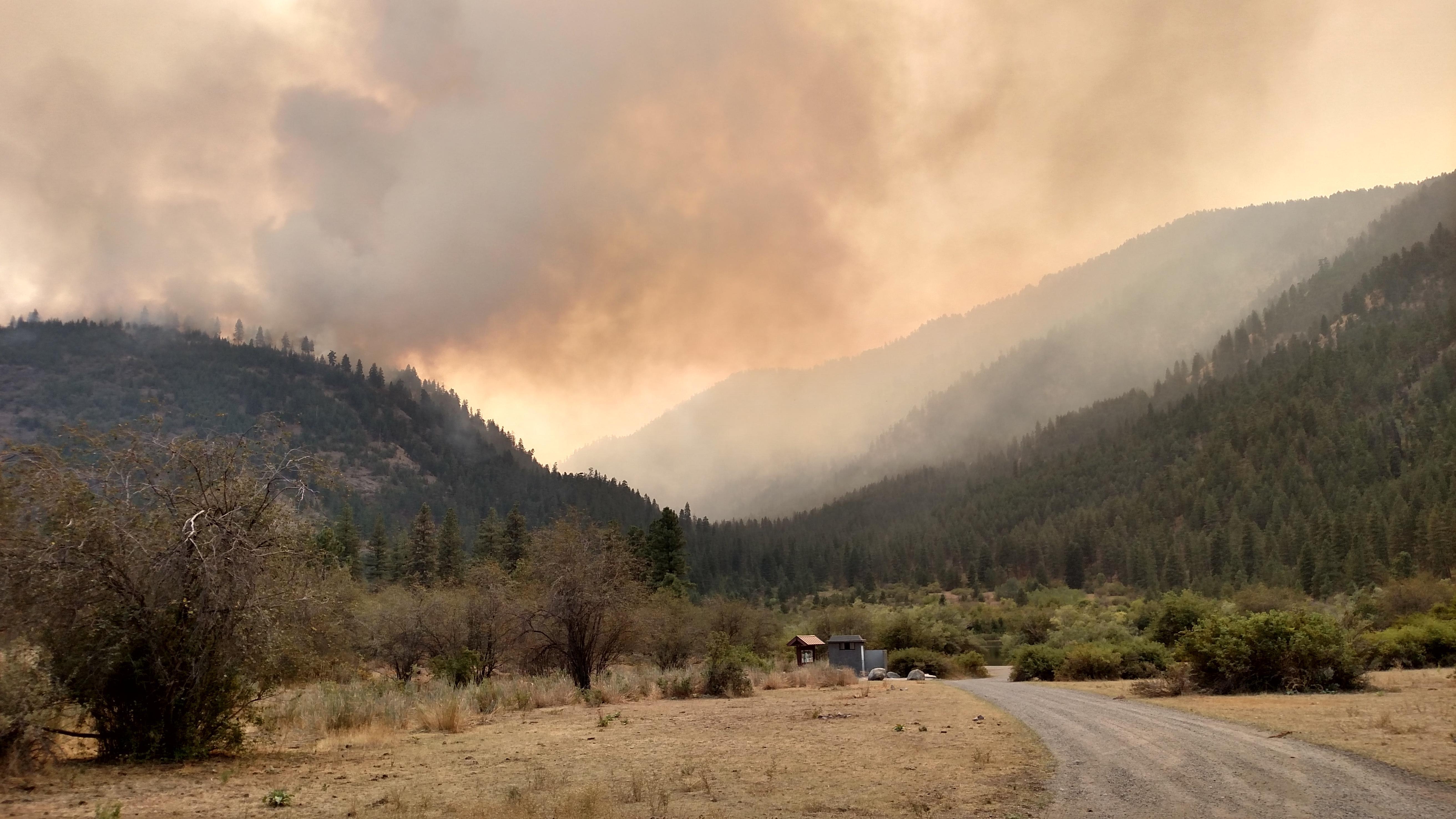 The Okanogan Complex Fire near Omak, WA began on Aug. 15, 2015 and has consumed an estimated 256,567 acres. The fire was caused by lightning. USFS photo.